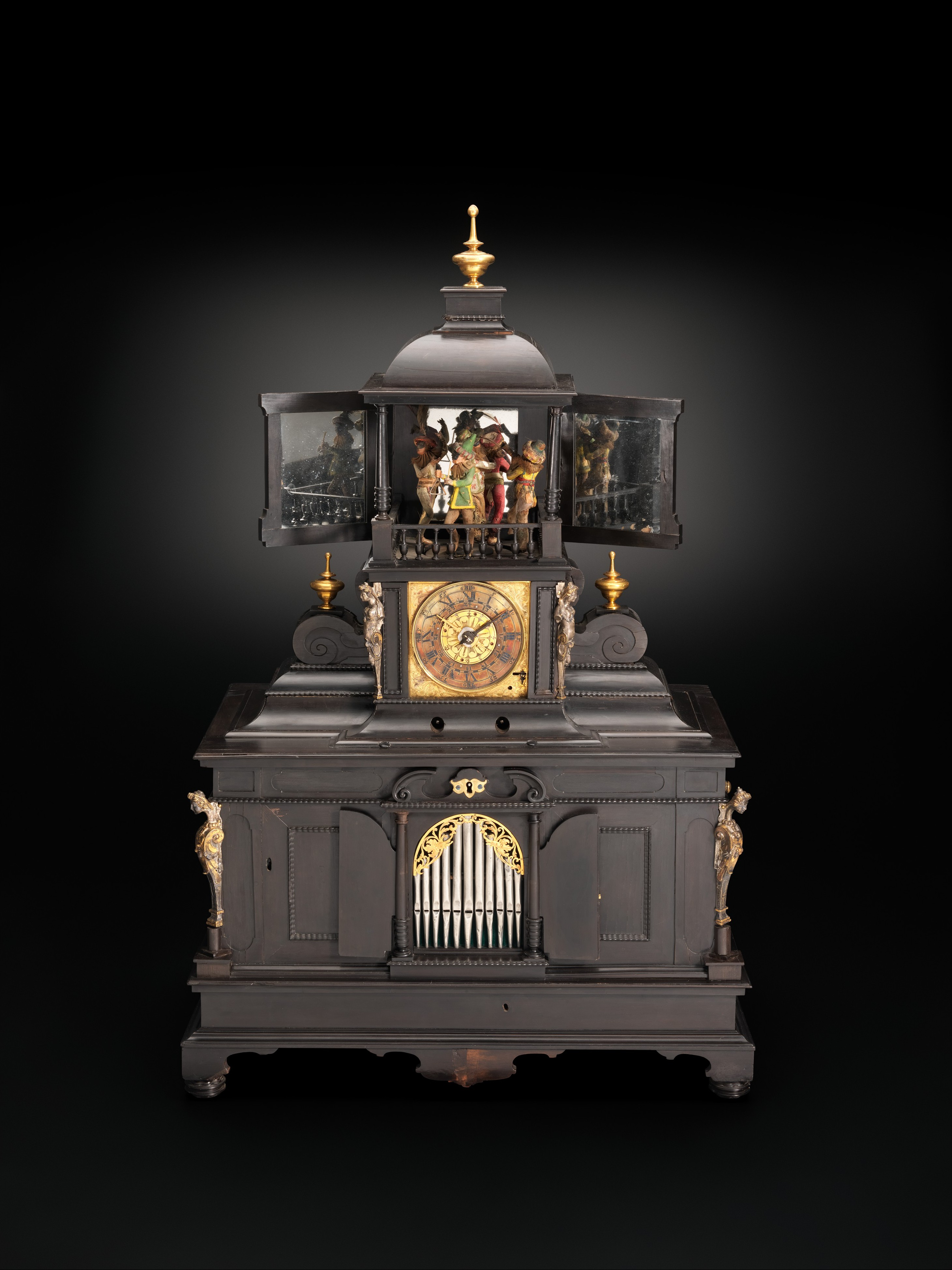 German; Musical Clock with Spinet and Organ; Chordophone